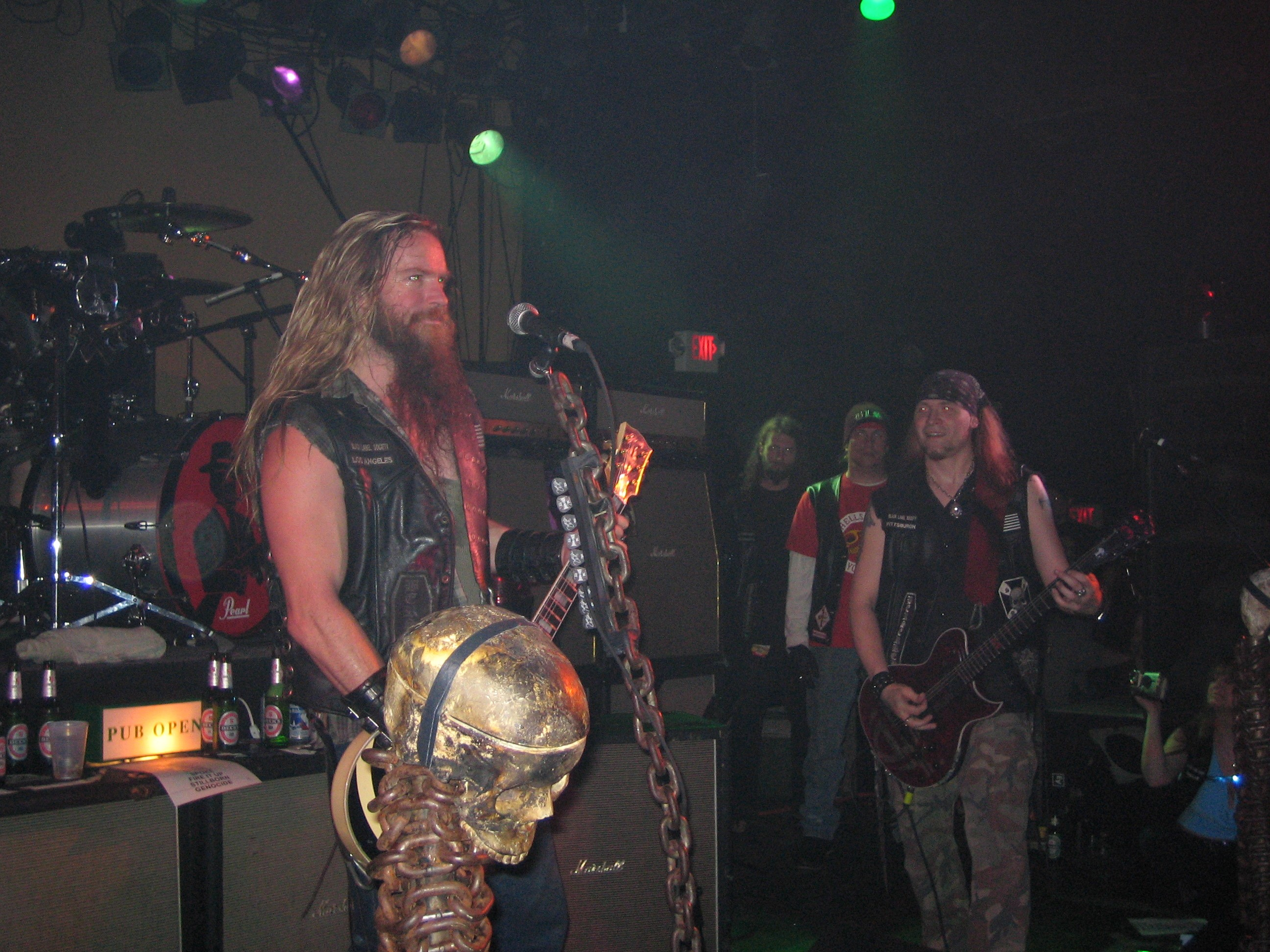 Zakk Wylde live (Recorded at Jaxx Nightclub in Springfield, VA)